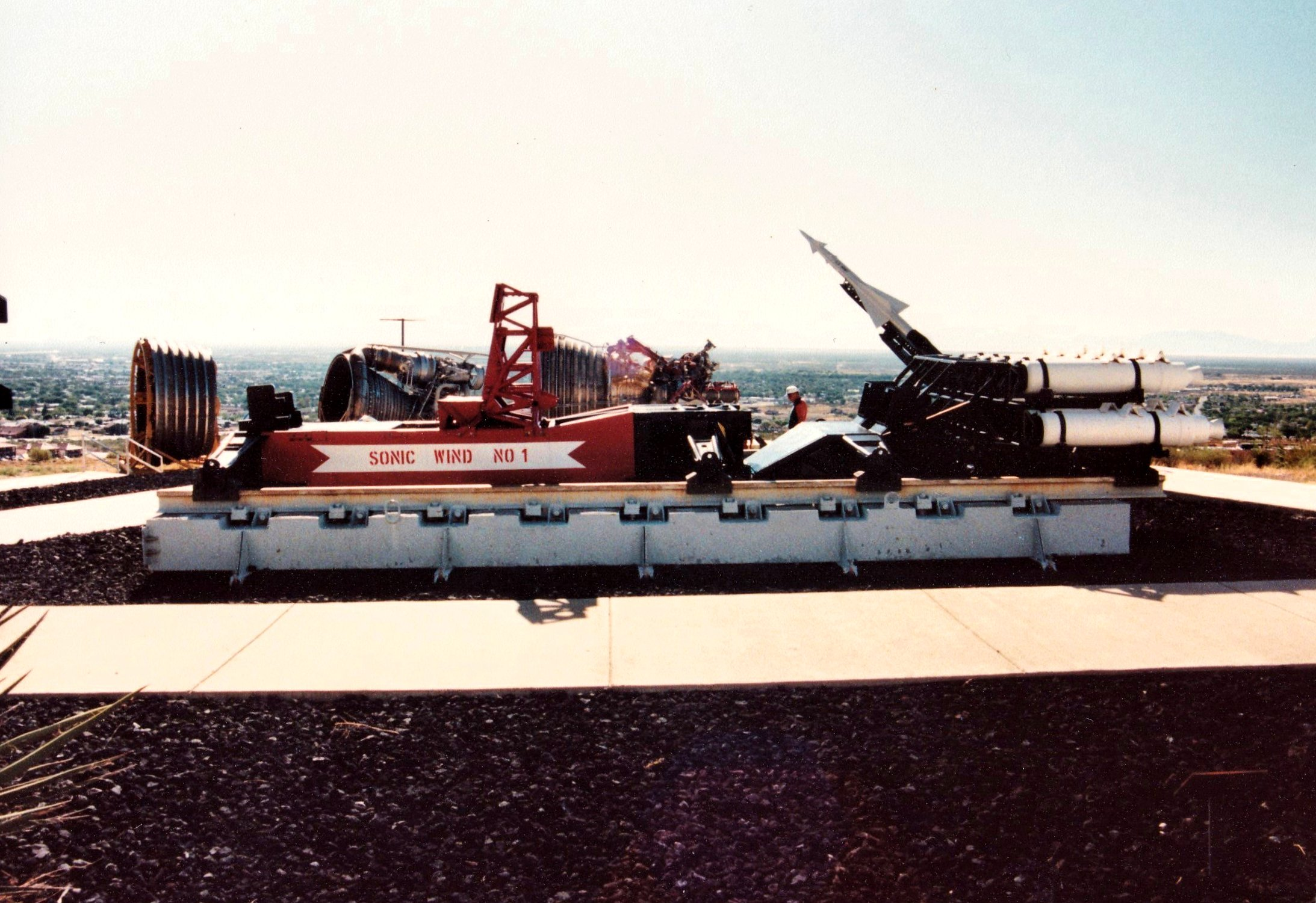 Sonic Wind No. 1, a rocket sled ridden by John Paul Stapp in the 1950s. Located in the John P. Stapp Air and Space Park at the New Mexico Museum of Space History, Alamogordo, New Mexico.